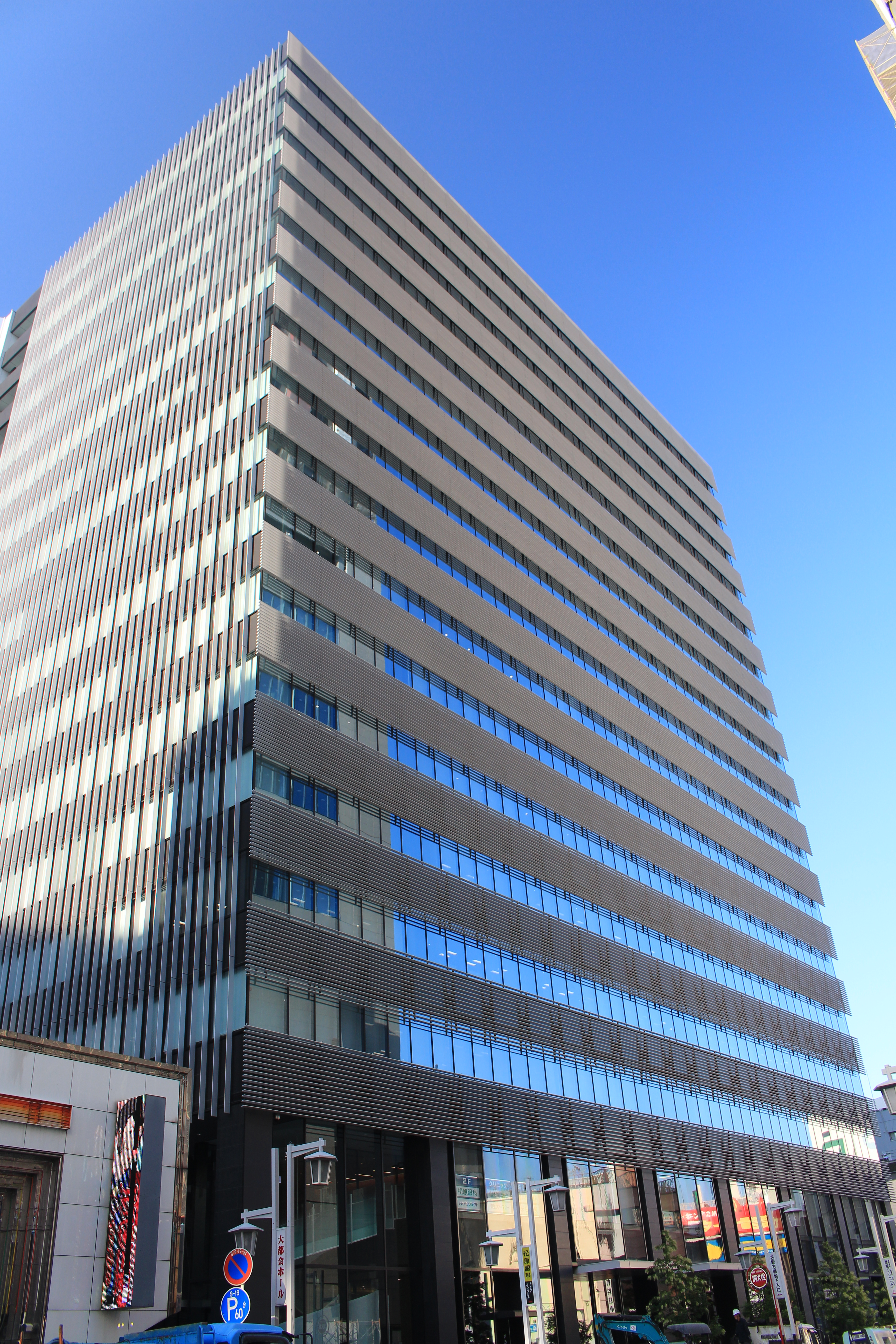 Nagoya Crosscourt Tower, in Meieki, Nakamura-ku, Nagoya, Aichi prefecture, Japan.